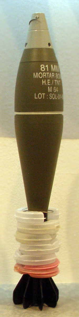 81mm mortar bomb HE/TNT M64